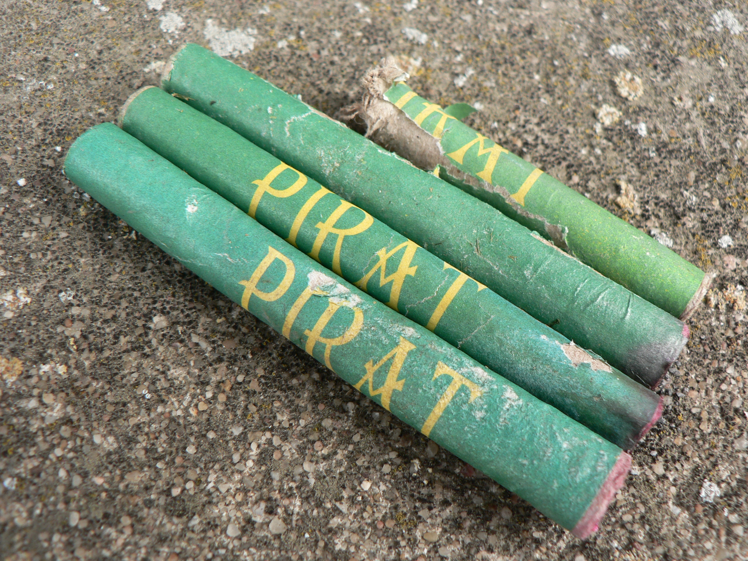 Pirat - small party explosive